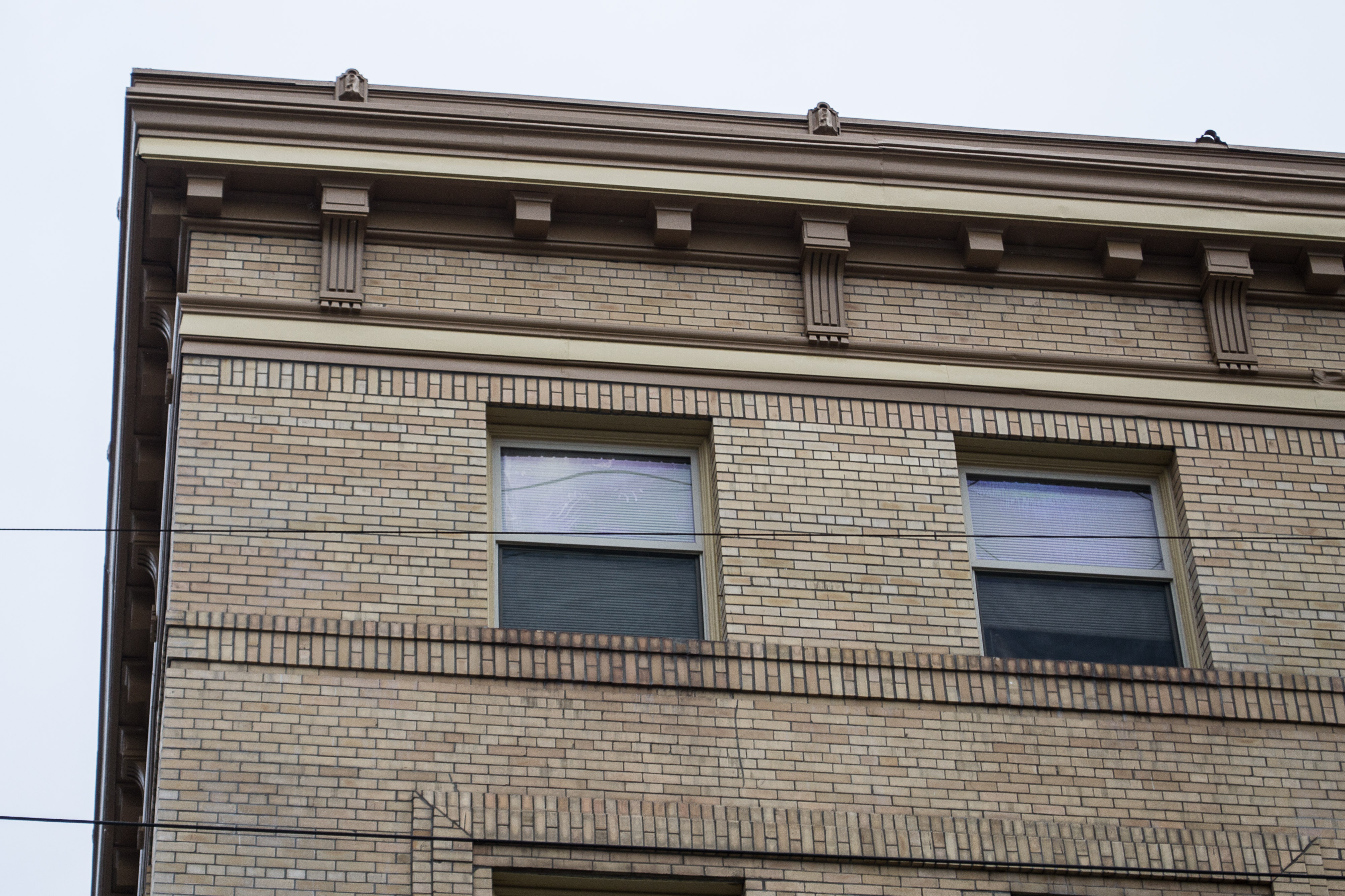 Decorative brickwork in horizontal courses and a cornice supported by brackets and block modillions are features of the Morgan, Leith, and Cook Building in the East Portland (Oregon) Grand Avenue Historic District.